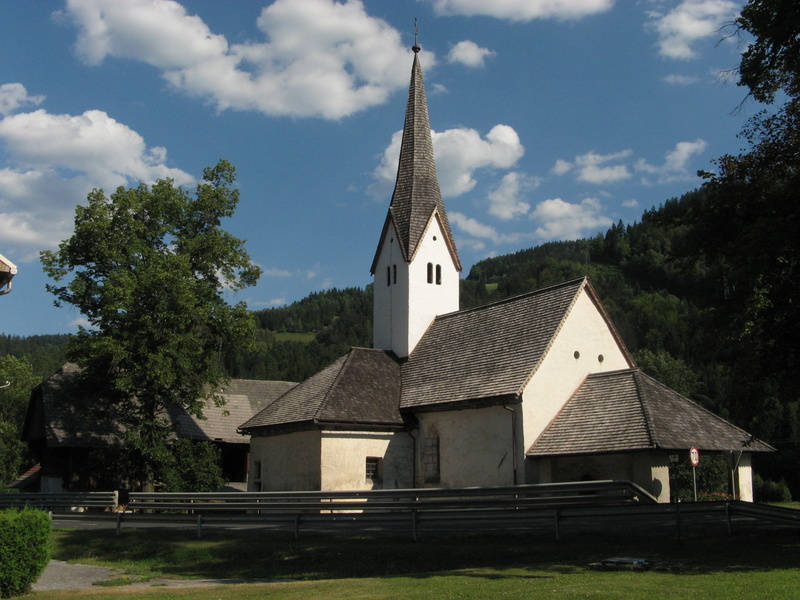 Saint John the Baptist Church in Poljana, Municipality of Prevalje, Slovenia